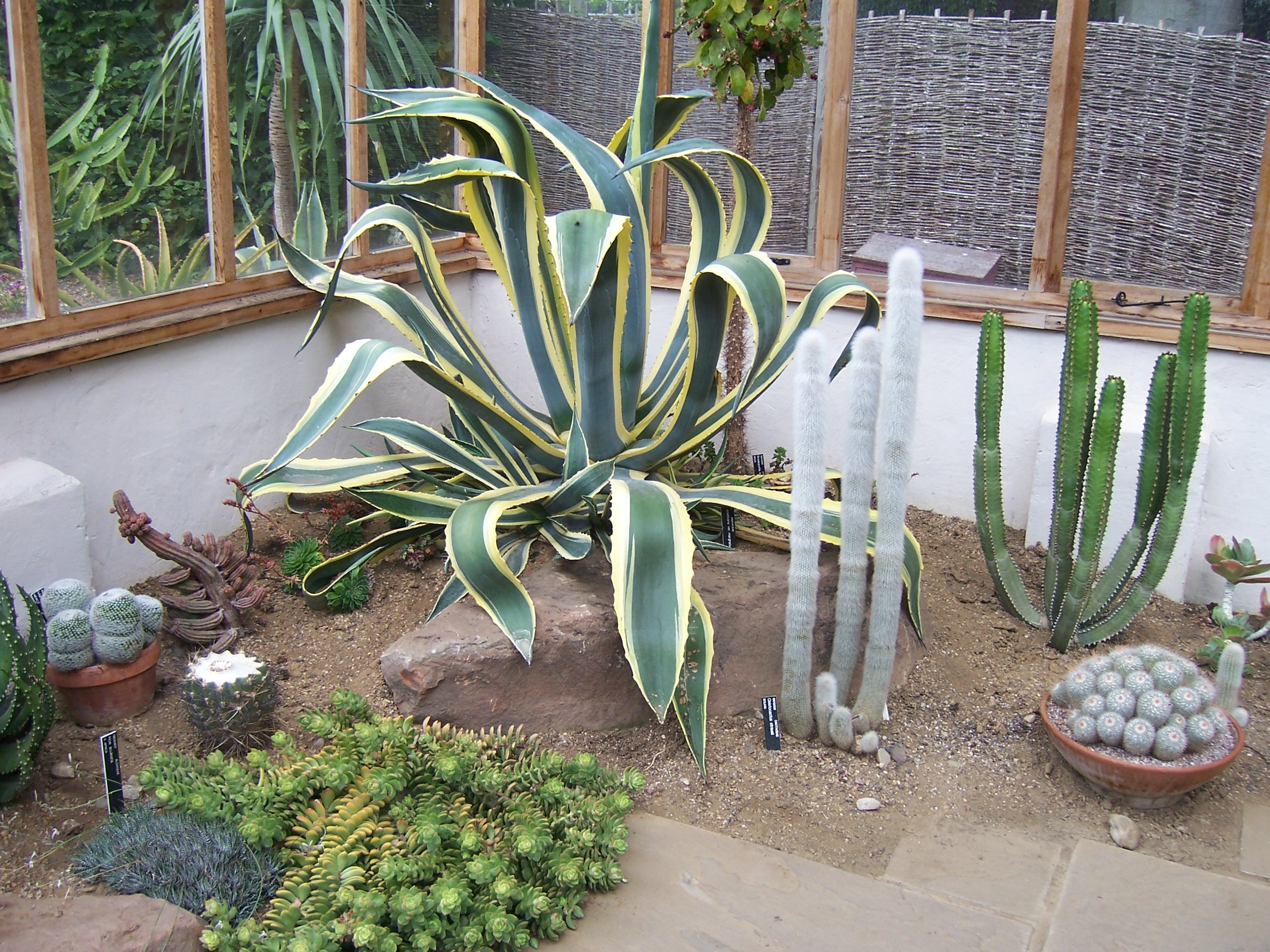 Winterbourne - Arid House - Attack of the octo agave!